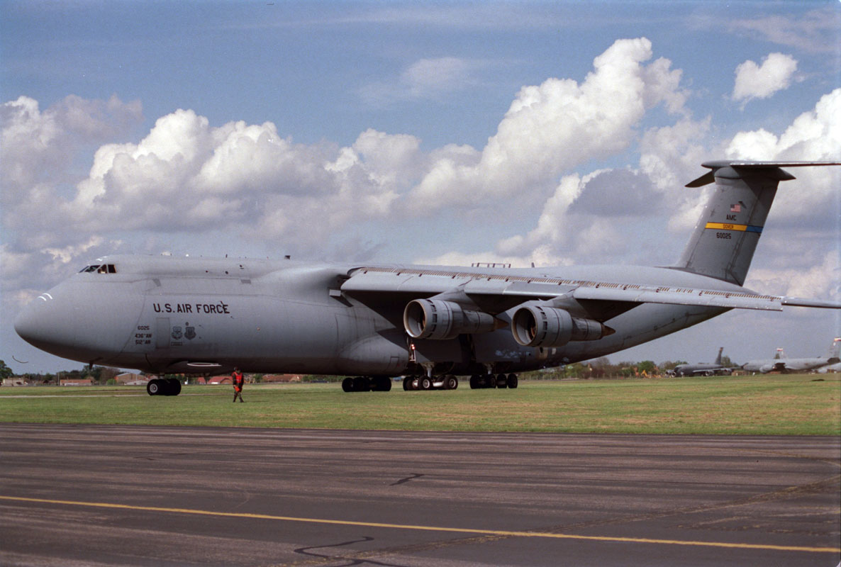 A C-5 Galaxy arrives at RAF Mildehall, England on April 22, 1999. The C-5 is delivering four fuel trucks to help the fuels management flight of the 100th Supply Squadron keep up with the increasing demand to fuel more KC-135R Stratotankers for Operation Allied Force.